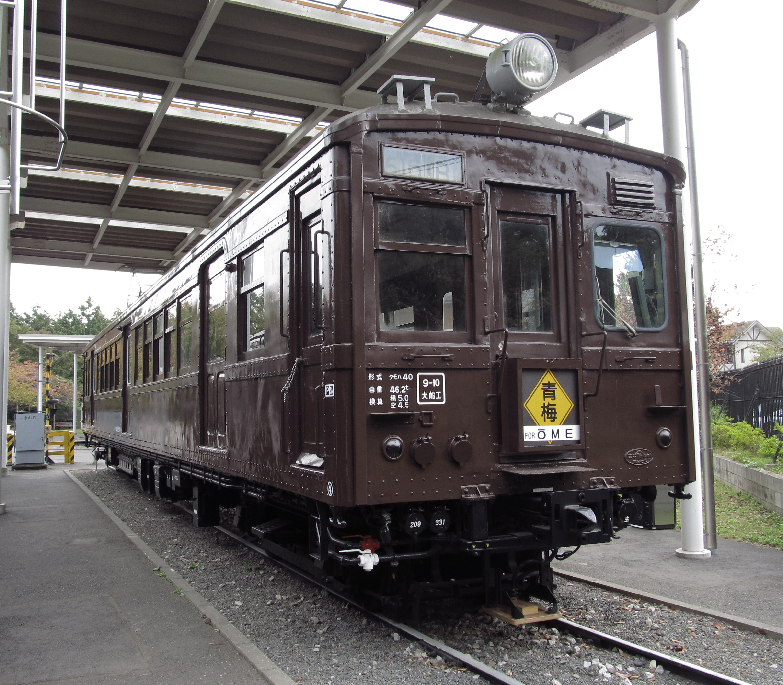 JNR 40 series (Kumoha40054, Stored at Ōme Railway Park)